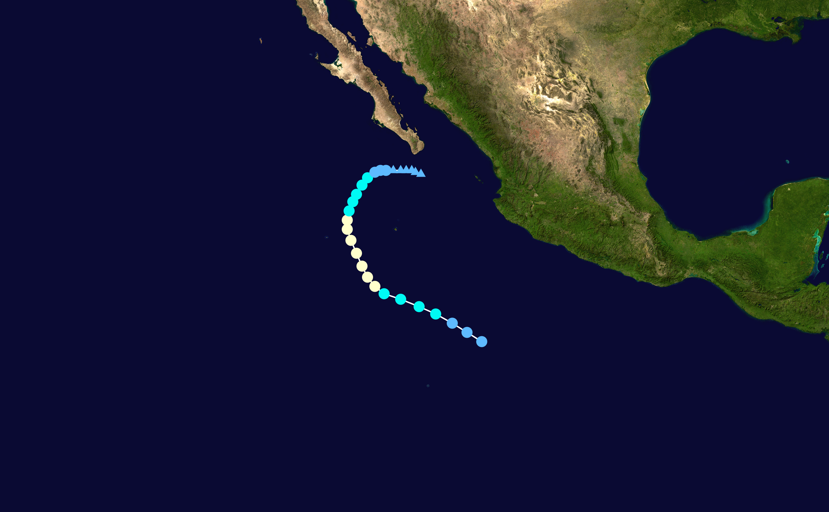 Track map of Hurricane Ivo of the 2007 Pacific hurricane season. The points show the location of the storm at 6-hour intervals. The colour represents the storm's maximum sustained wind speeds as classified in the Saffir–Simpson scale (see below), and the shape of the data points represent the nature of the storm, according to the legend below. Saffir–Simpson scale Tropical depression≤38 mph≤62 km/h Category 3111–129 mph178–208 km/h Tropical storm39–73 mph63–118 km/h Category 4130–156 mph209–251 km/h Category 174–95 mph119–153 km/h Category 5≥157 mph≥252 km/h Category 296–110 mph154–177 km/h Unknown Storm type Tropical cyclone Subtropical cyclone Extratropical cyclone / Remnant low / Tropical disturbance / Monsoon depression